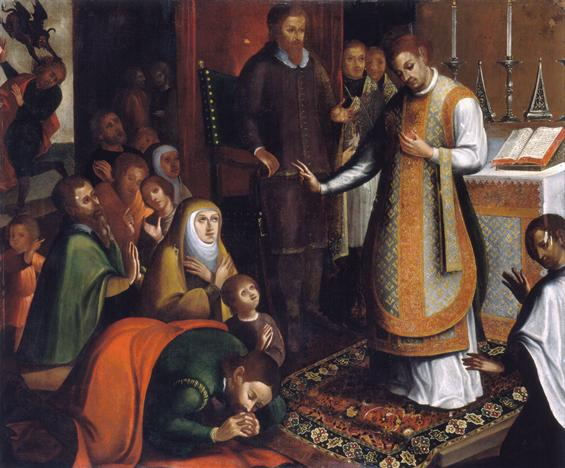 Saint Theotonius celebrates Mass before King Afonso I of Portugal.label QS:Len,"Saint Theotonius celebrates Mass before King Afonso I of Portugal."label QS:Lpt,"São Teotónio celebrando perante D. Afonso Henriques e seu séquito."